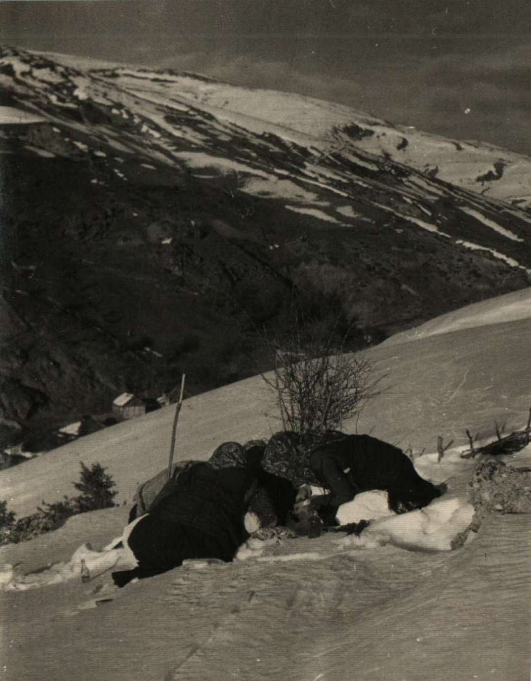 Macedonia